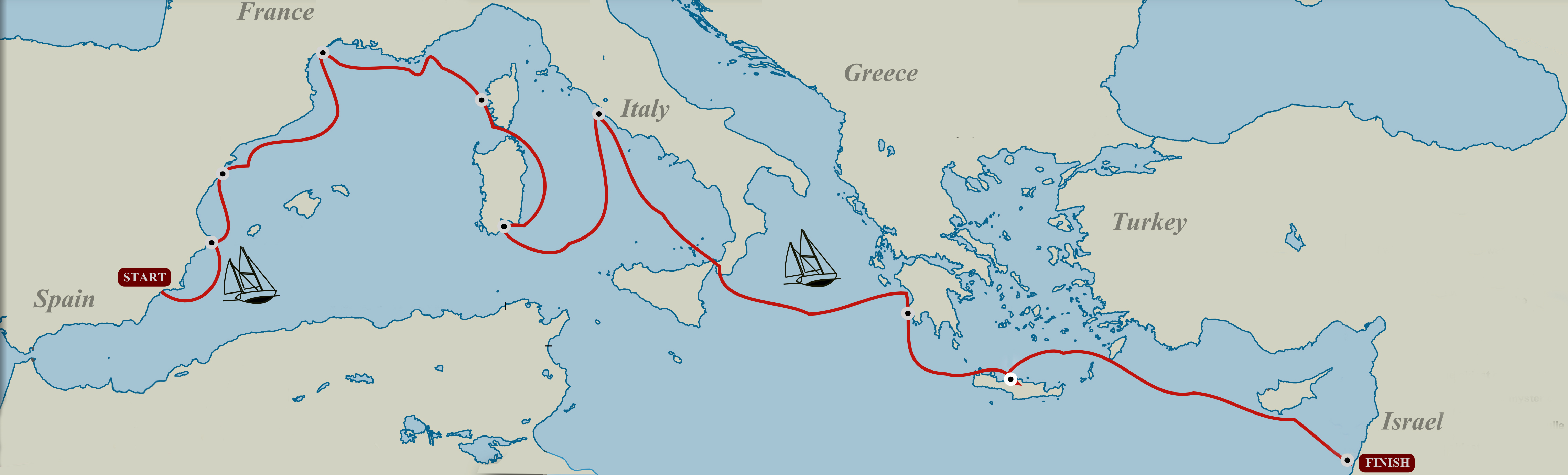 Colin and Julie's route through the Mediterranean